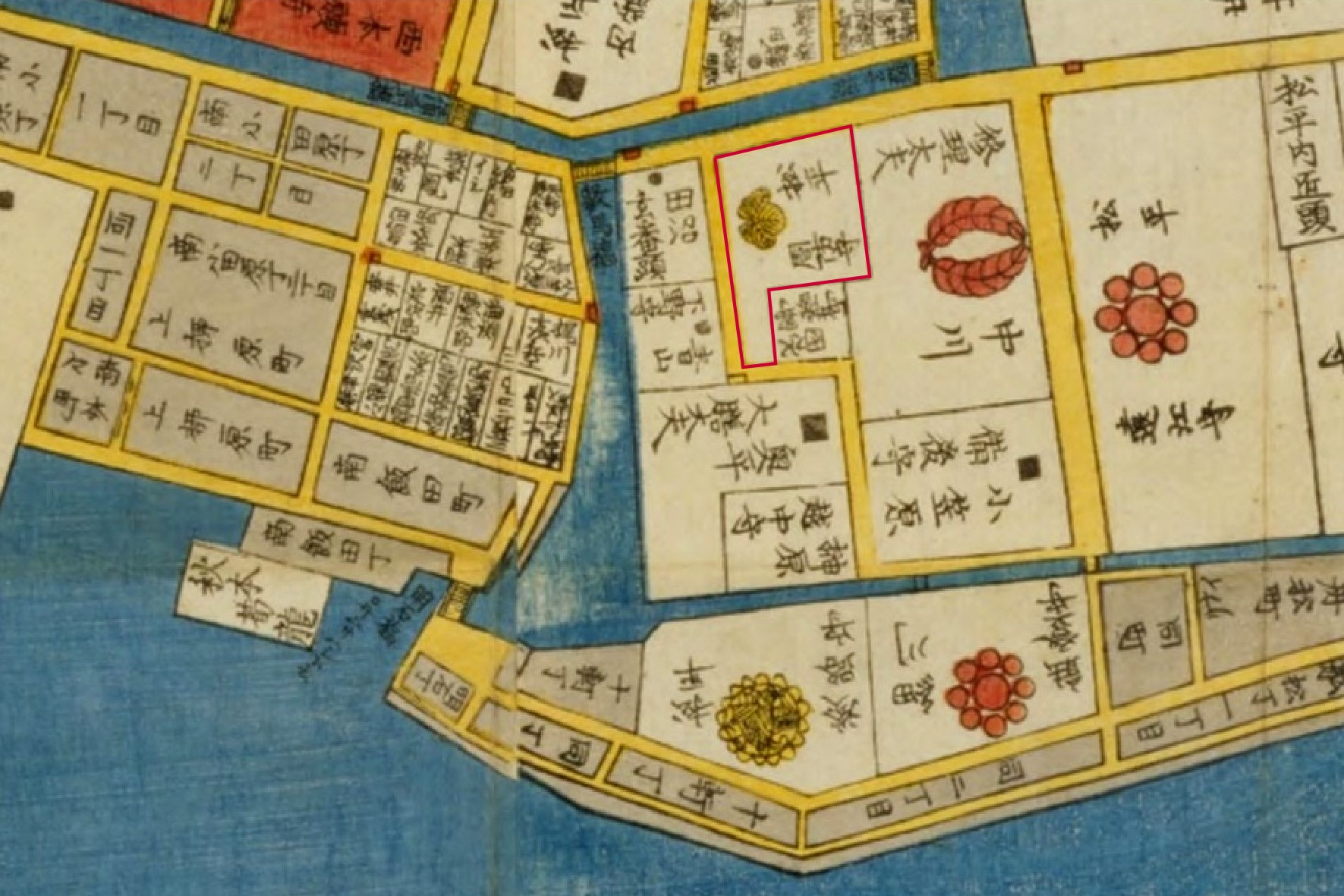 Residence Matsudaira Matsui at Edo